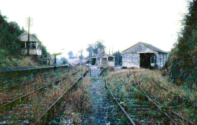 Midsomer Norton railway station Original description: Midsomer Norton Railway Station Disused station buildings and signal box.